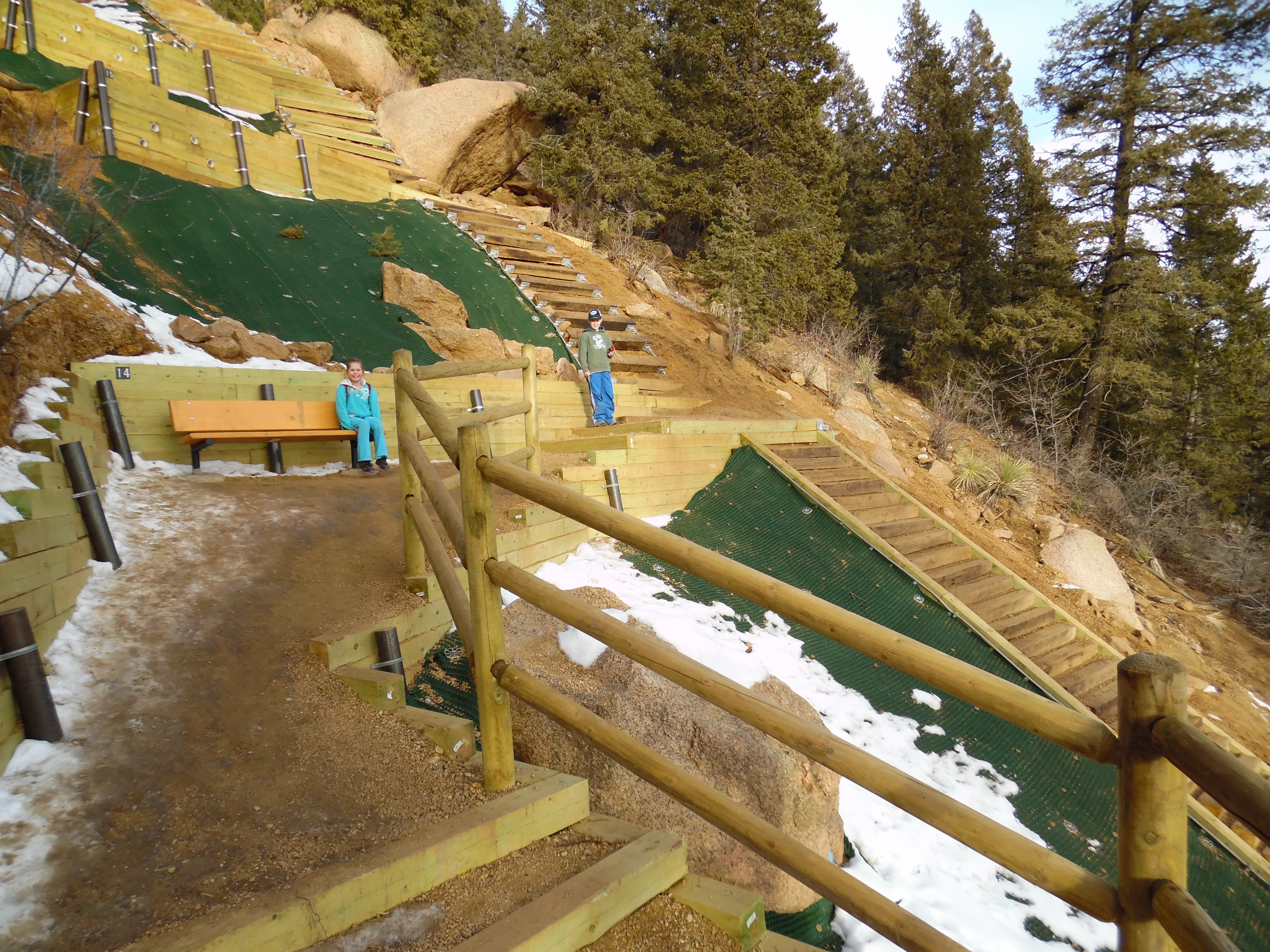 The Barr Trail Bailout, two-thirds of the way up the Manitou Incline in Colorado Springs, CO.